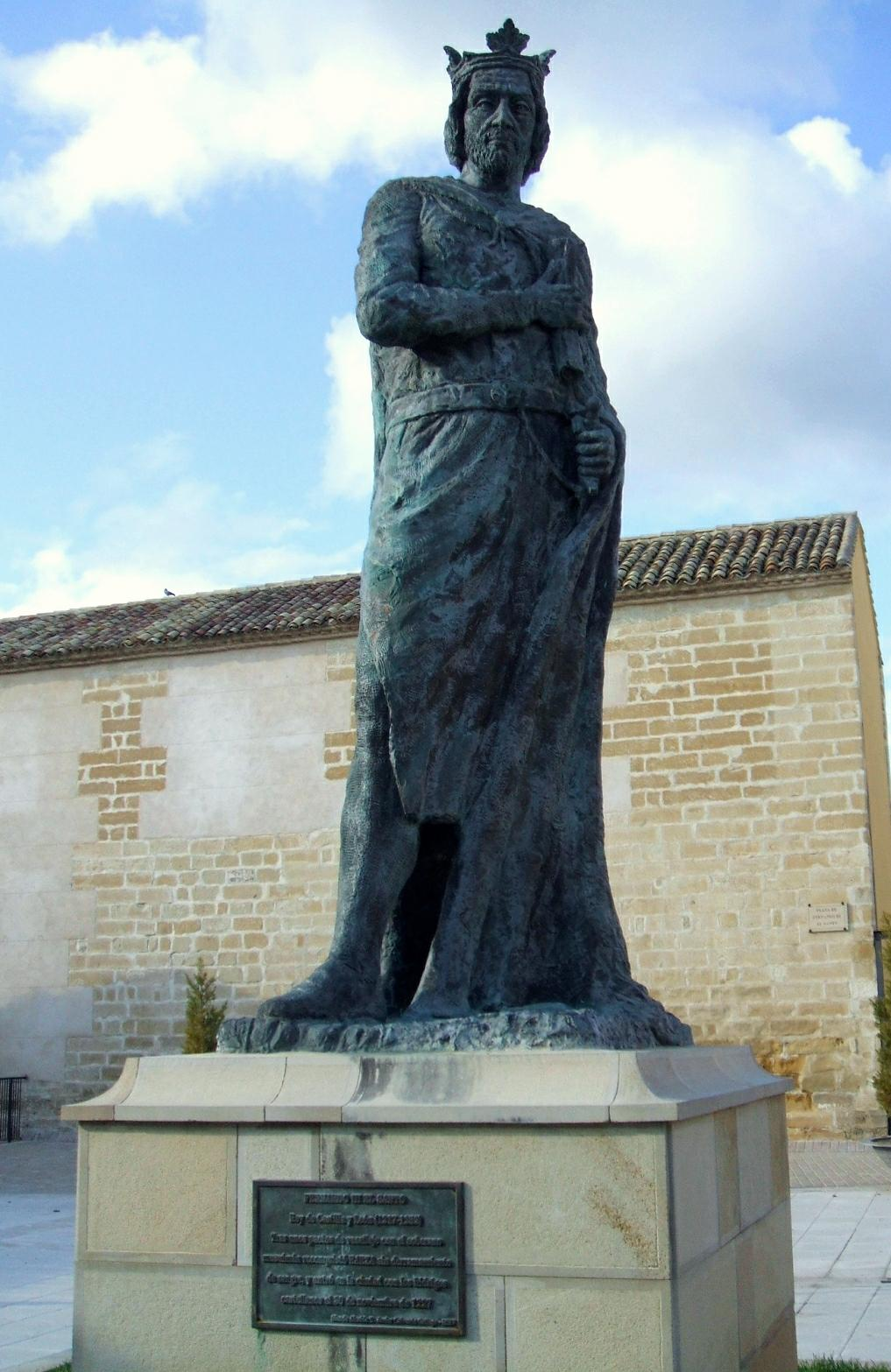 Monumento a Fernando III el Santo, rey de Castilla (1217–1252), junto al antiguo Colegio de Santiago y Cuartel de Sementales de Baeza (Jaén, Andalucía, España)